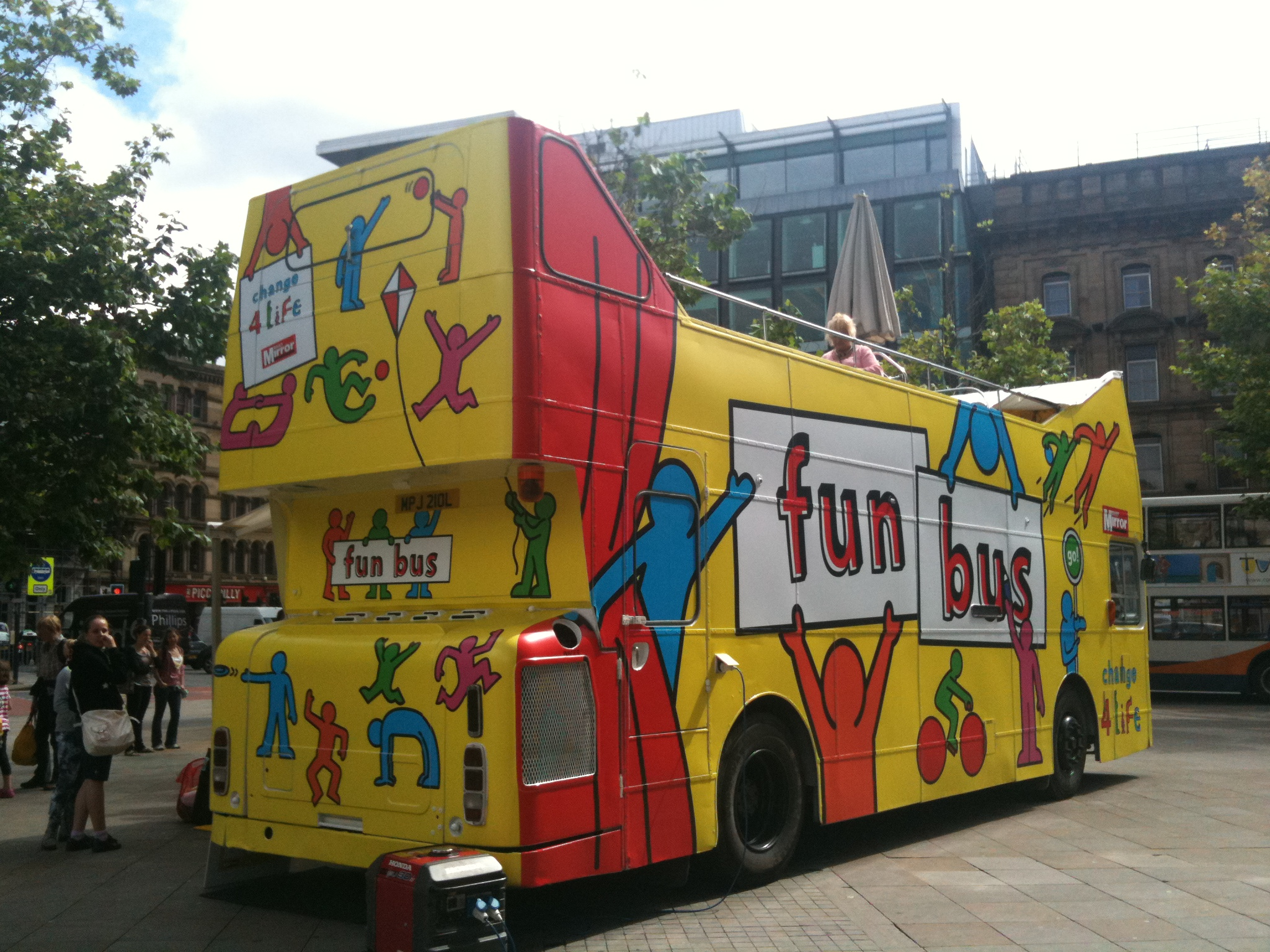 MPJ 210L MCW-bodied Leyland Atlantean, new in October 1972 to London Country as their AN110 and converted to the "change 4 life" fun bus, seen outside Piccadilly Gardens on Friday 20th August